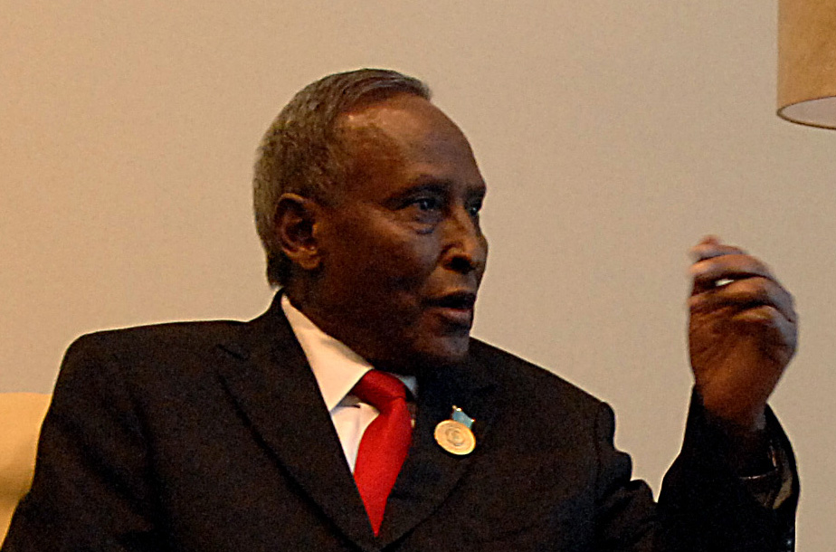 Abdullahi Yusuf Ahmed, President of Somalia, at the African Union Summit June 30, 2008, in Sharm El Sheikh, Egypt